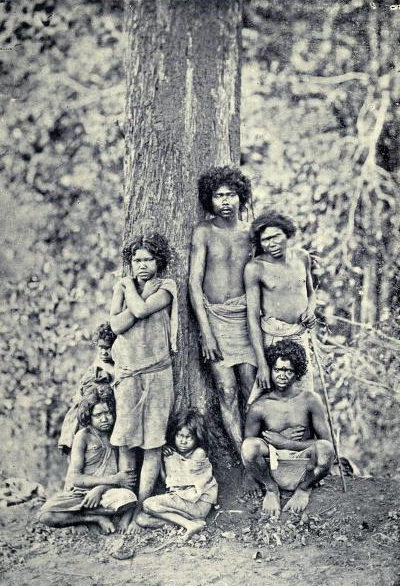 Kurumba Family in 1900s